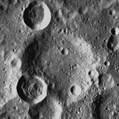 Becvár is the eroded crater at center, satellites X and Q at left.